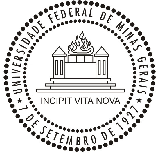 This is a logo for Universidade Federal de Minas Gerais.